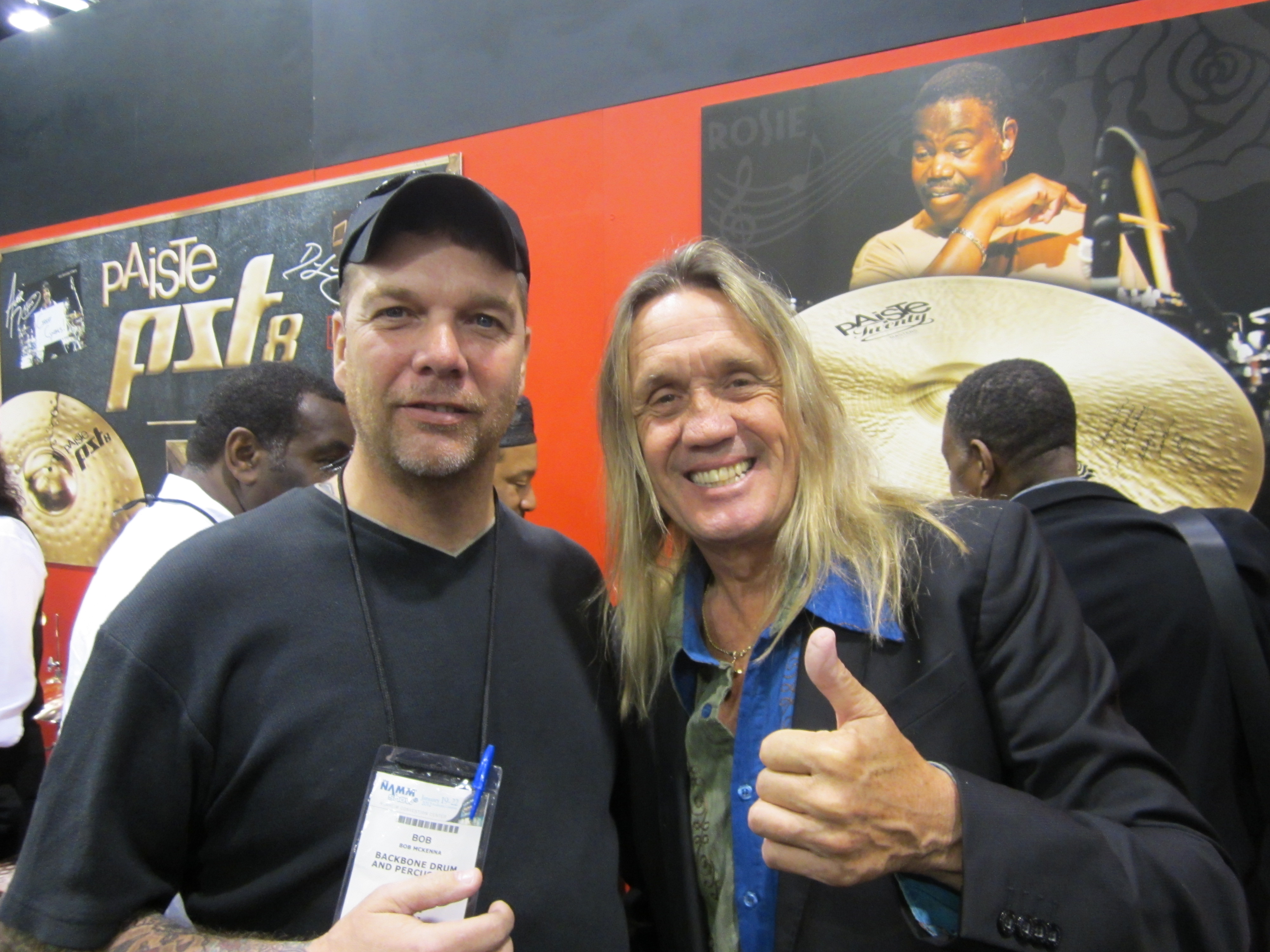 with Nicko McBrain